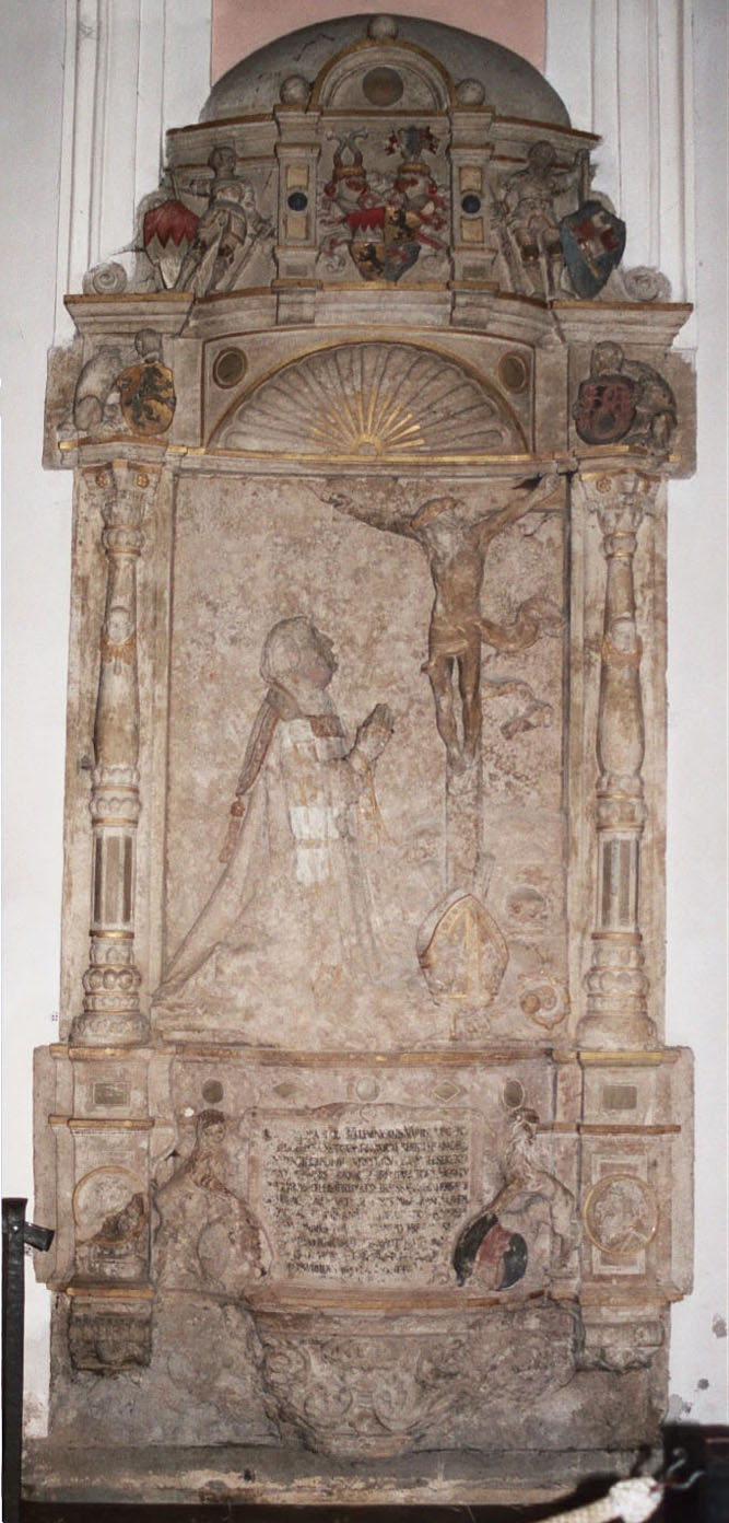 photo of Conrad von Bibra grave in Wuerzburg Cathedral